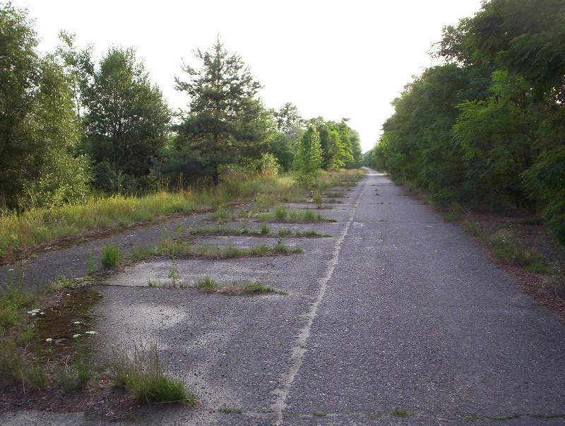 700 metres of asphalt road to nowhere in Bolimów Forest (Masovia, Poland). A part of highway Olimpijka, that was never finished.